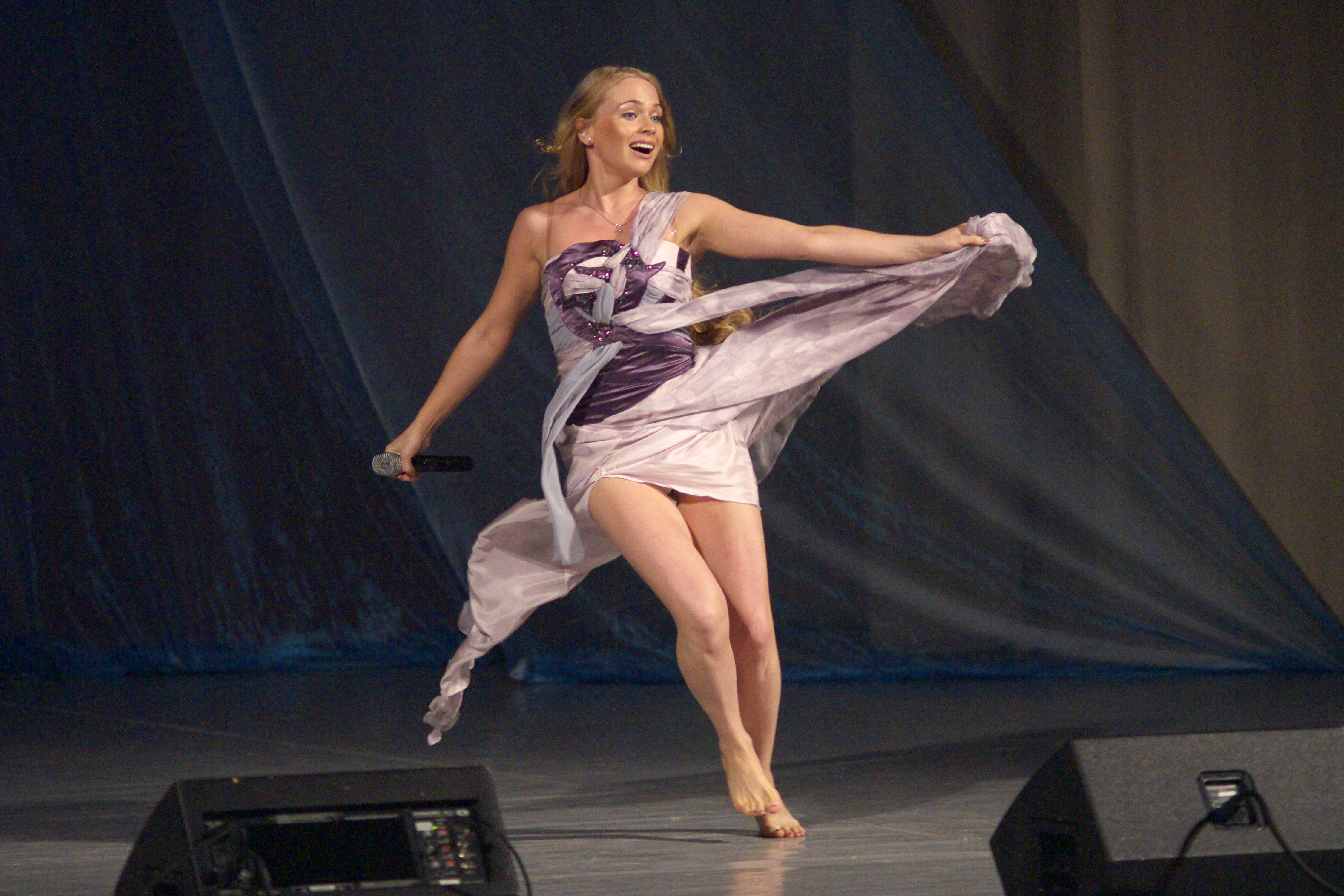 Alyona Lanskaya - winner of XX International Pop Song Performers Contest “VITEBSK-2011” on XX International Festival of Arts “Slavianski Bazaar in Vitebsk”